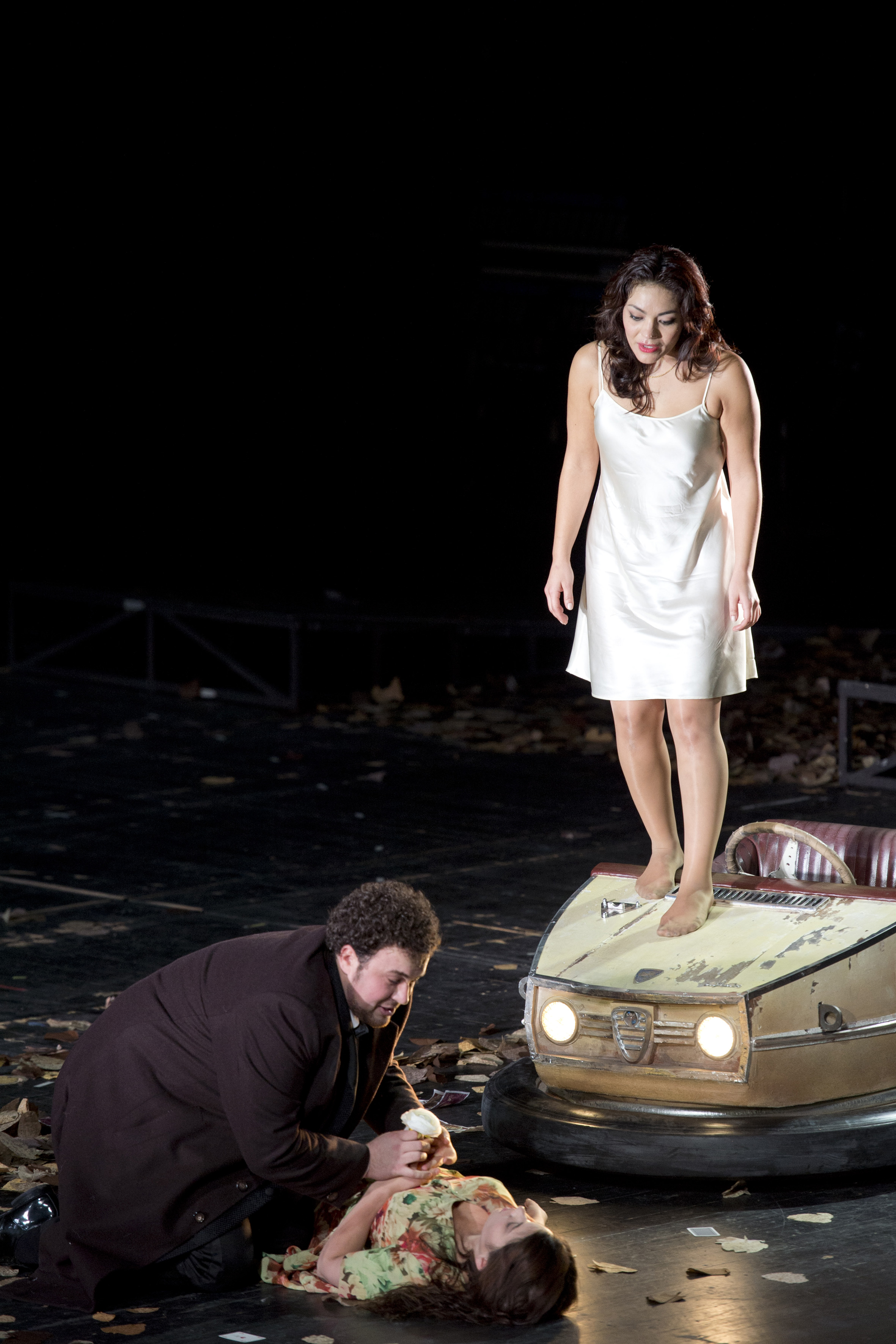 Production of La Traviata at Hamburgische Staatsoper 2013, stage photo: Ailyn Pérez as Violetta Valéry, Stefan Pop as Alfredo Germont, extra.